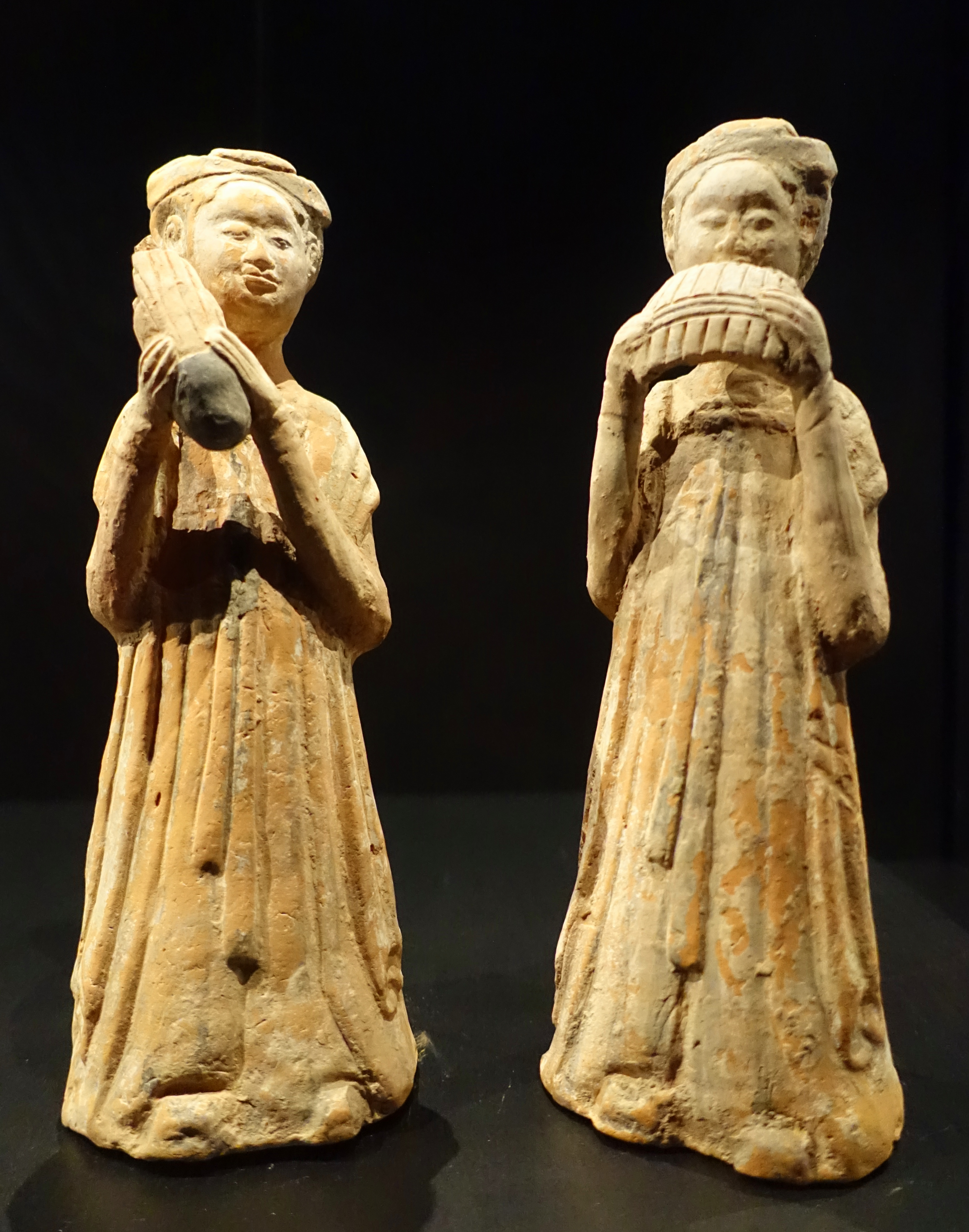 Exhibit in the Östasiatiska museet, Stockholm, Sweden. This artwork is old enough so that it is in the public domain.